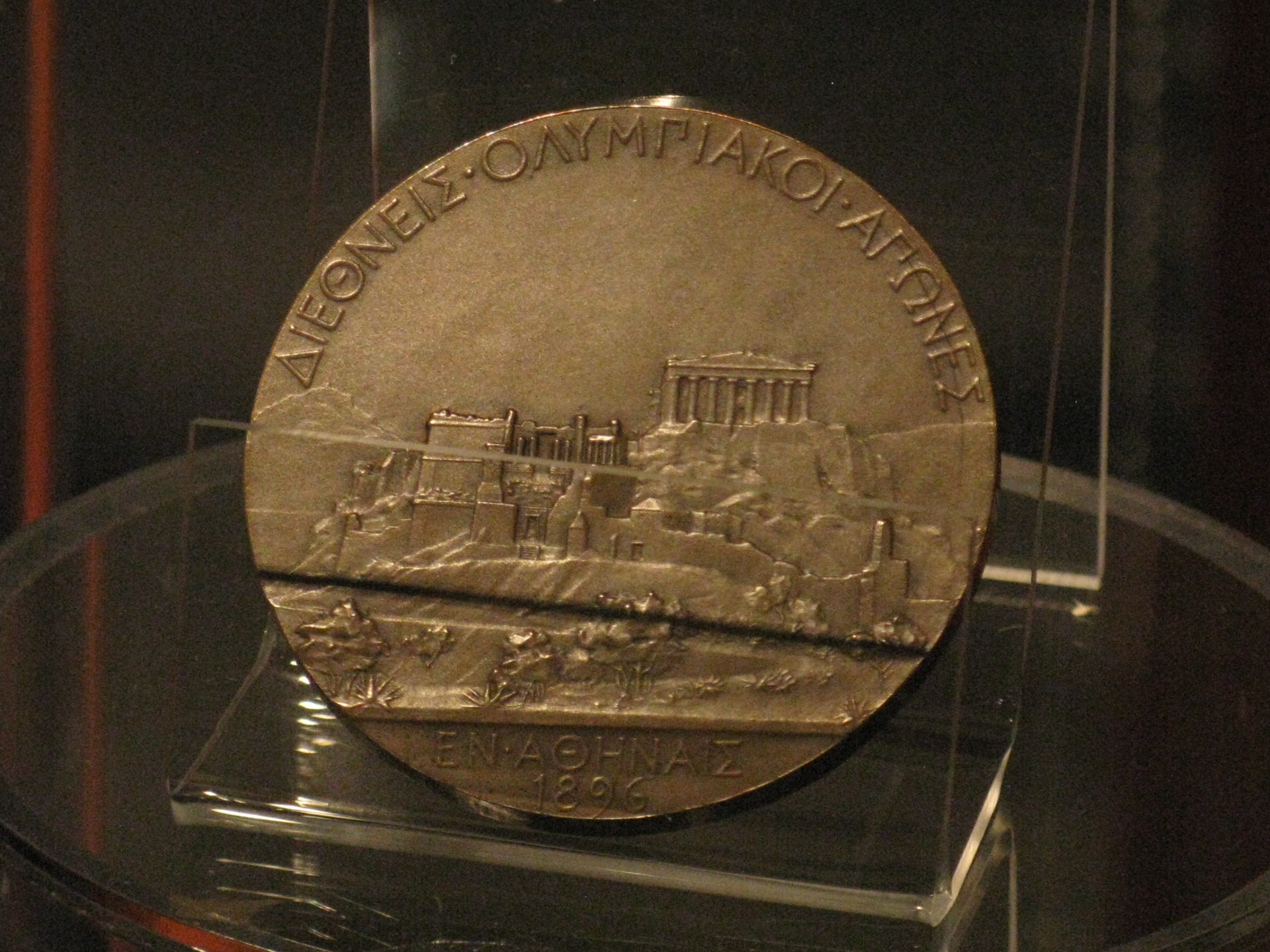 Olympic second place medal from the Athens Games of 1896 (reverse), from the collection of the Olympic Museum (IOC).